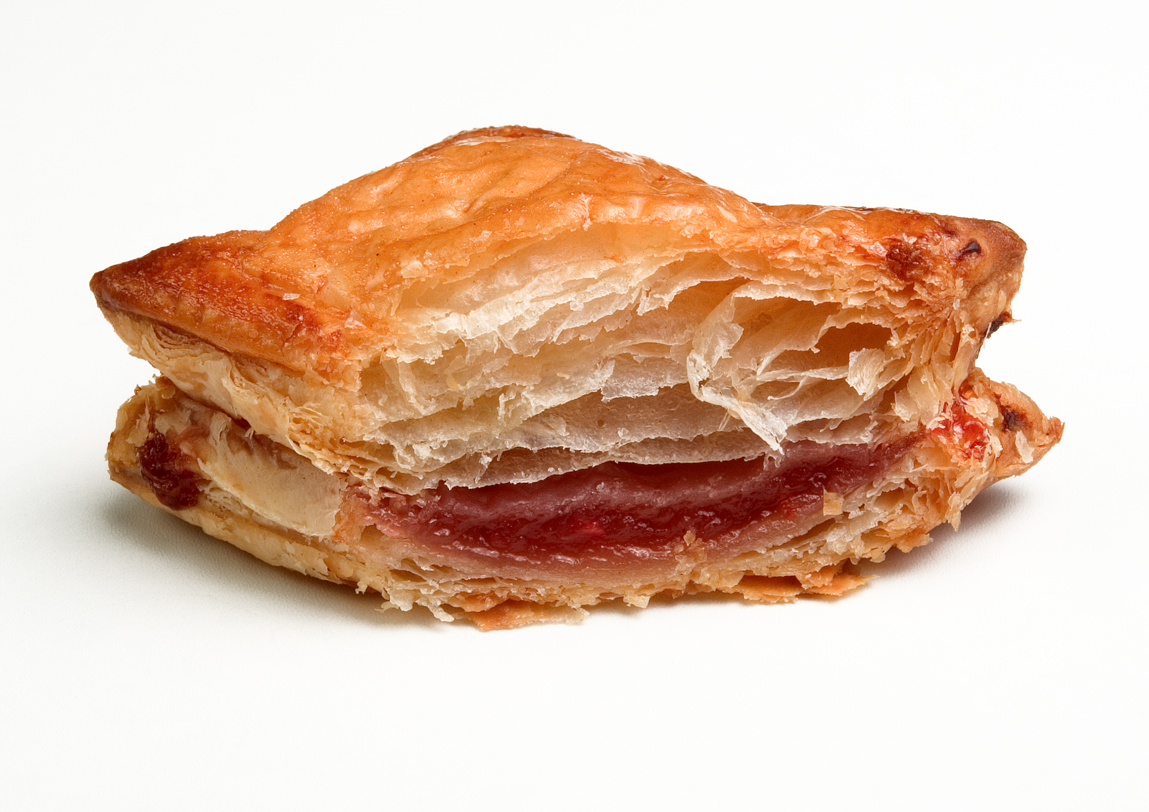 Rissoles from Savoie - Dessert of pear compote backed